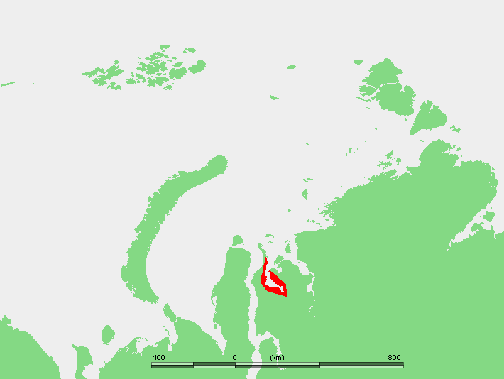 Locator map of Khalmyer Bay, Kara Sea (Russia).